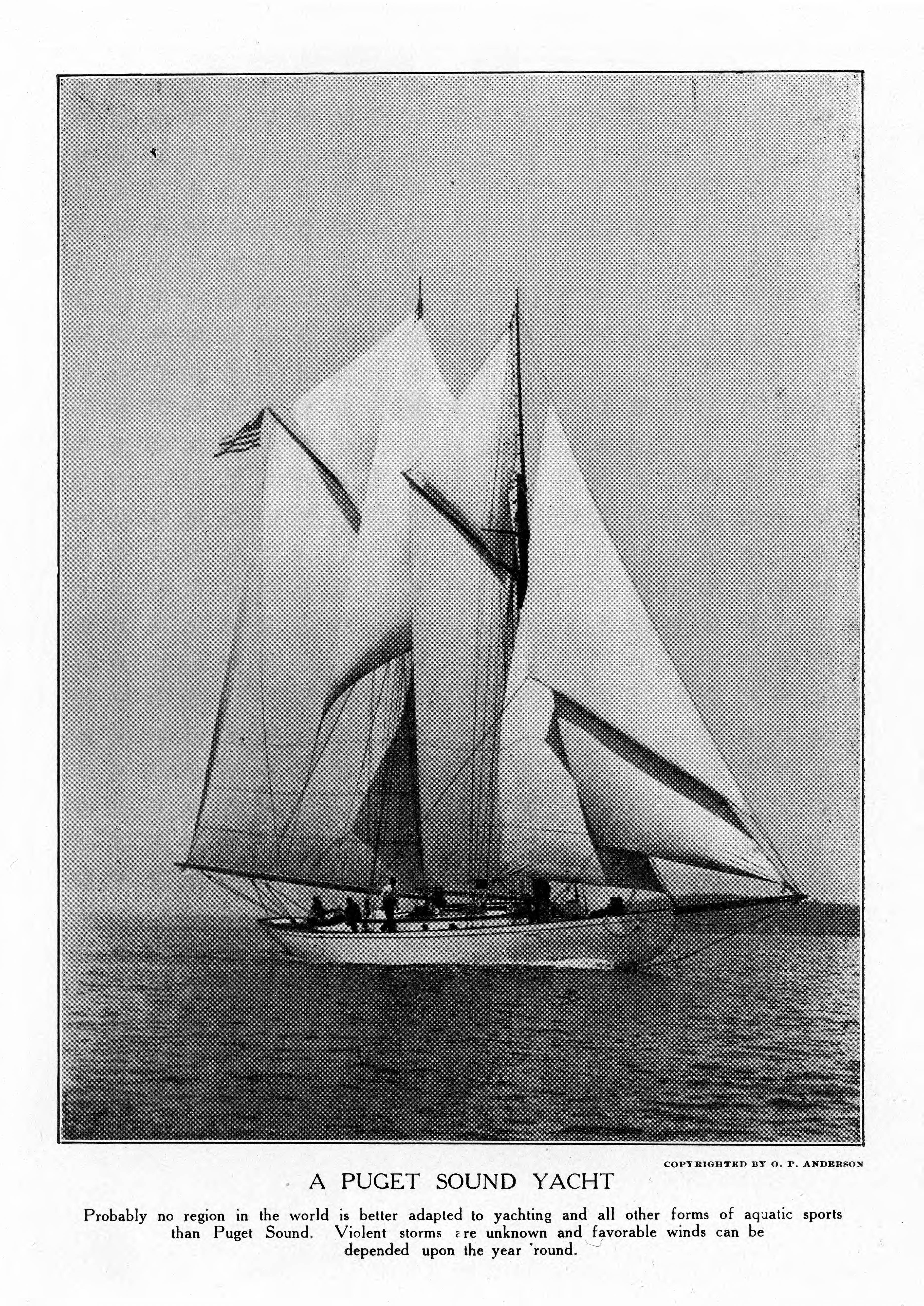 From the materials for the Alaska-Yukon-Pacific Exposition of 1909, held in Seattle. "A Puget Sound Yacht."